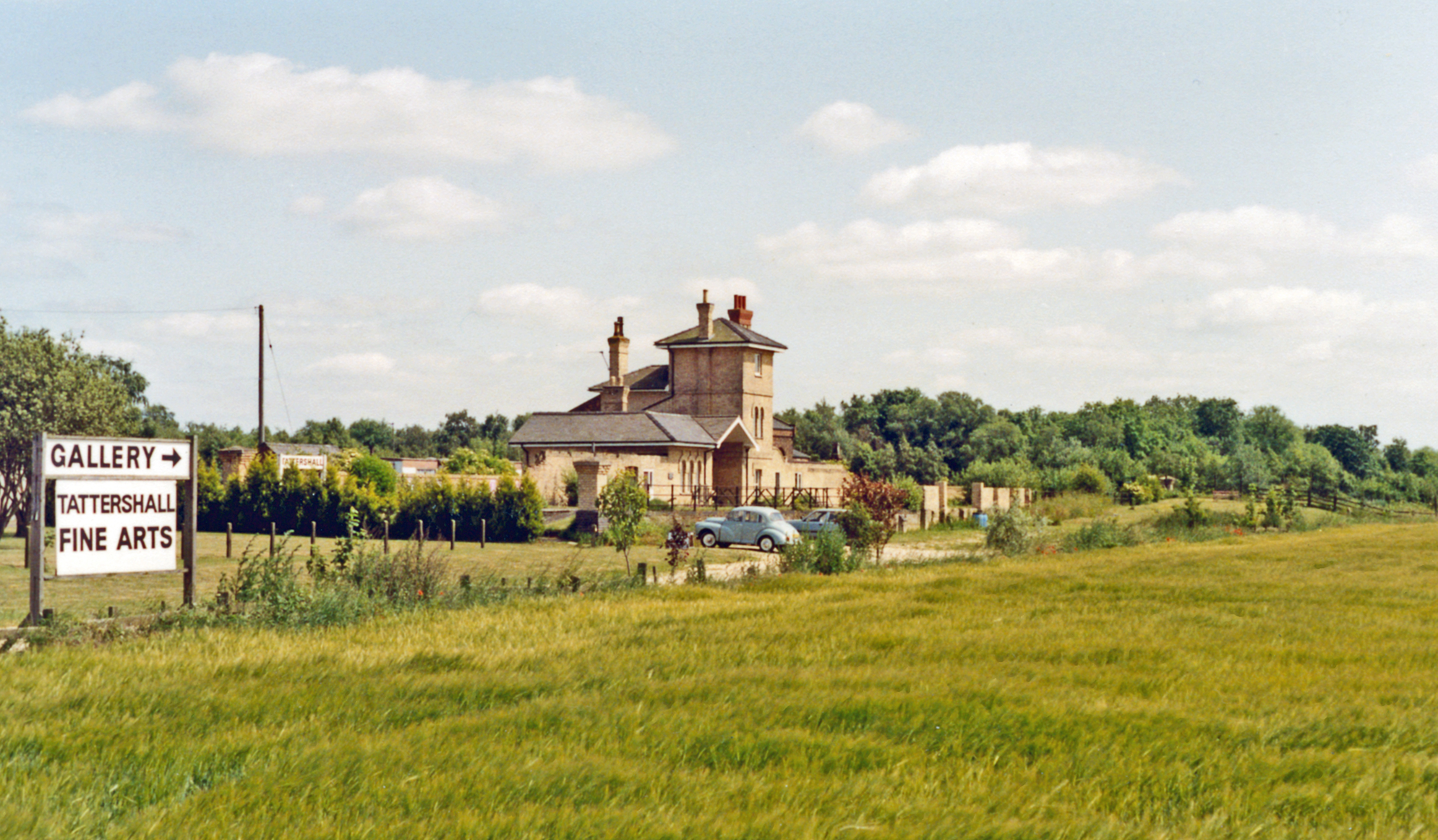 Tattershall: former station, now an art gallery, 1992. View SE from the A153 where there used to be a level-crossing, towards Boston on the ex-GNR Lincoln - Woodhall Junction - Boston line. The station was 17/6/63 when the line closed Woodhall Junction - Boston; Lincoln - Woodhall Junction lasted until 5/10/70.